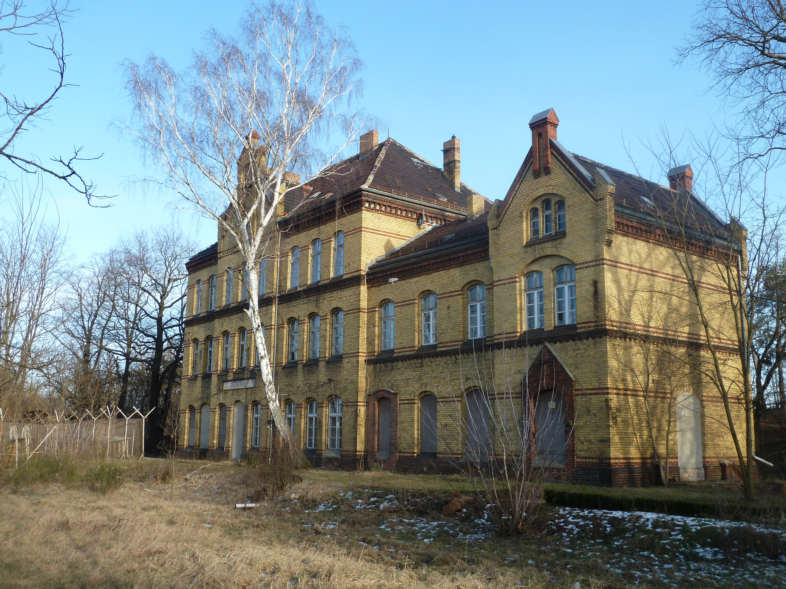 Jüterbog, military station. Cultural heritage. View from former platform side.